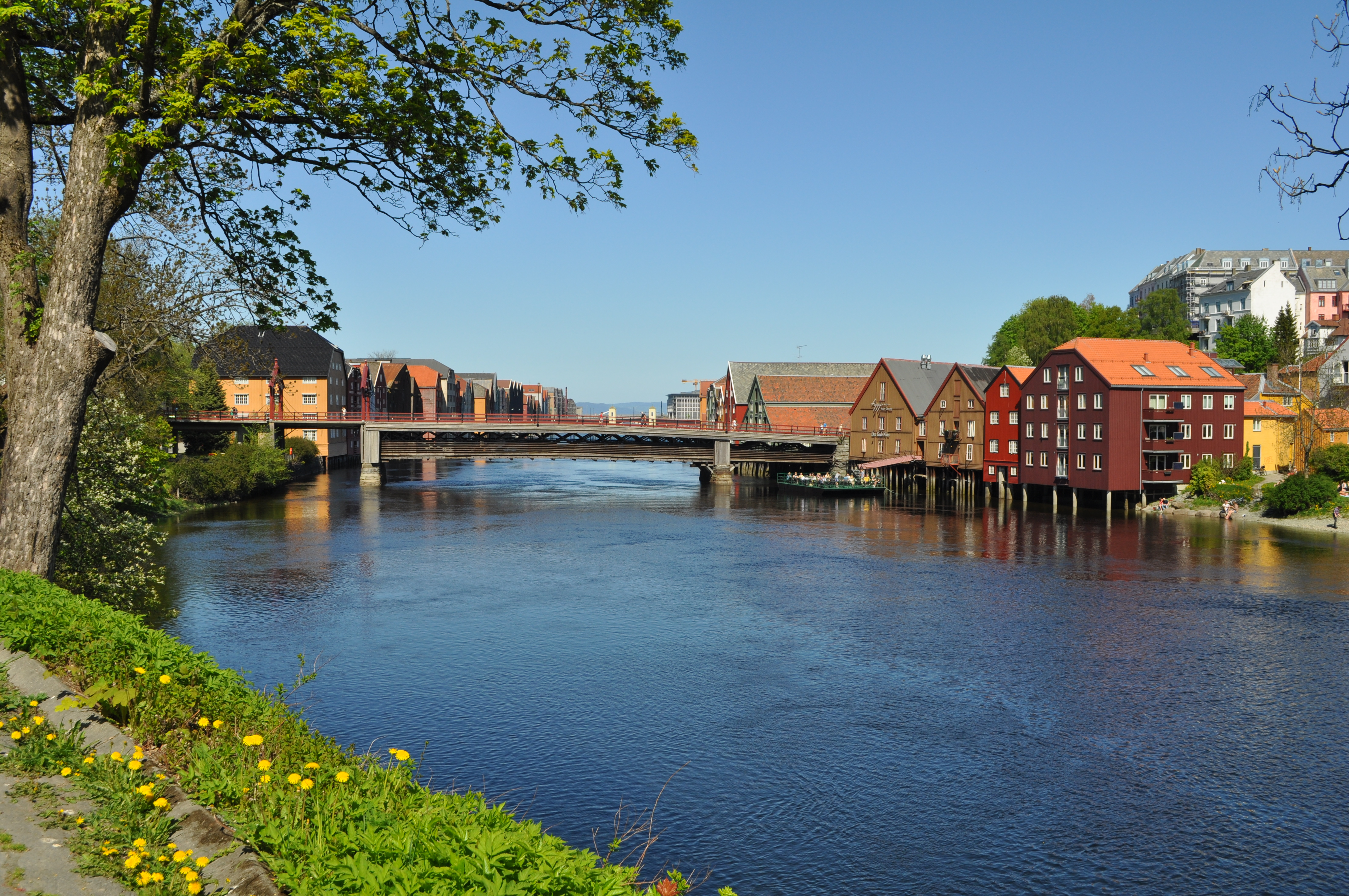 Building near Nidelva river in Trondheim